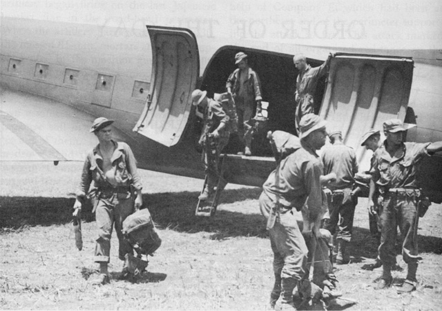 DOBODURA AIRSTRIP. 41st Division troops arriving from Port Moresby, 4 February 1943.